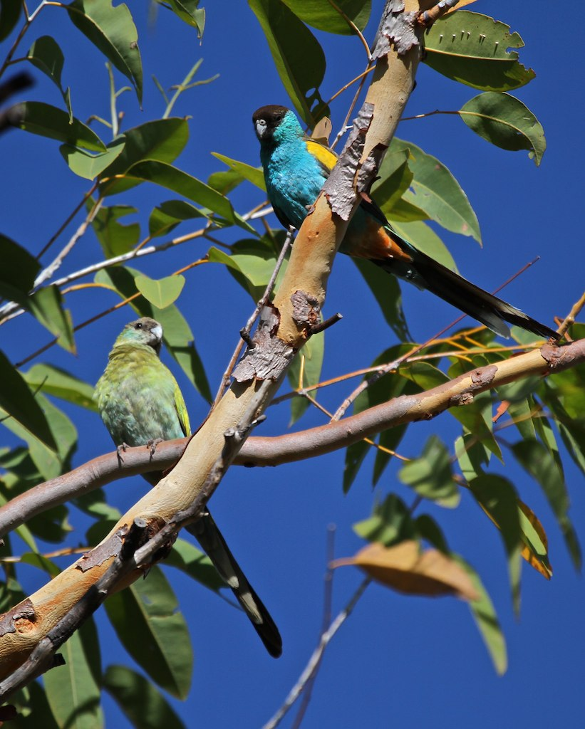 A pair of Hooded Parrots about 30 km south of Pine Creek, Northern Territory, Australia.